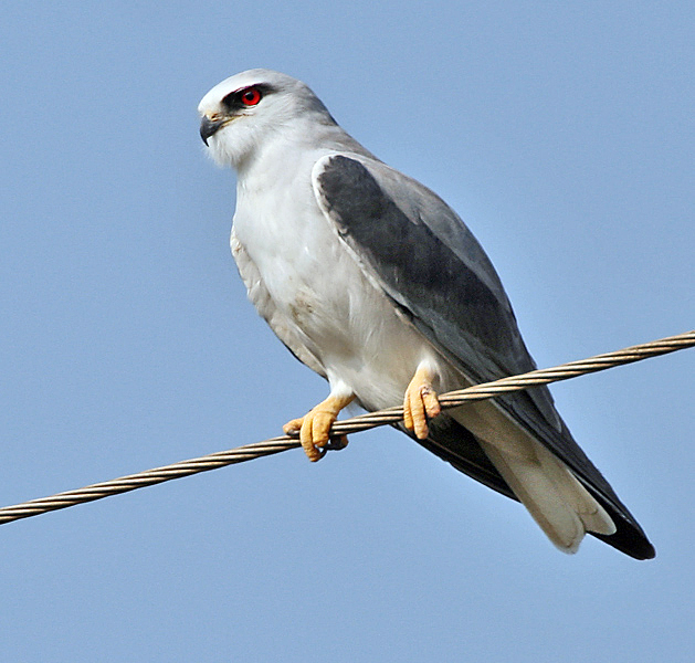 Black-shouldered Kite Elanus caeruleus in Kawal Wildlife Sanctuary, Andhra Pradesh, India.